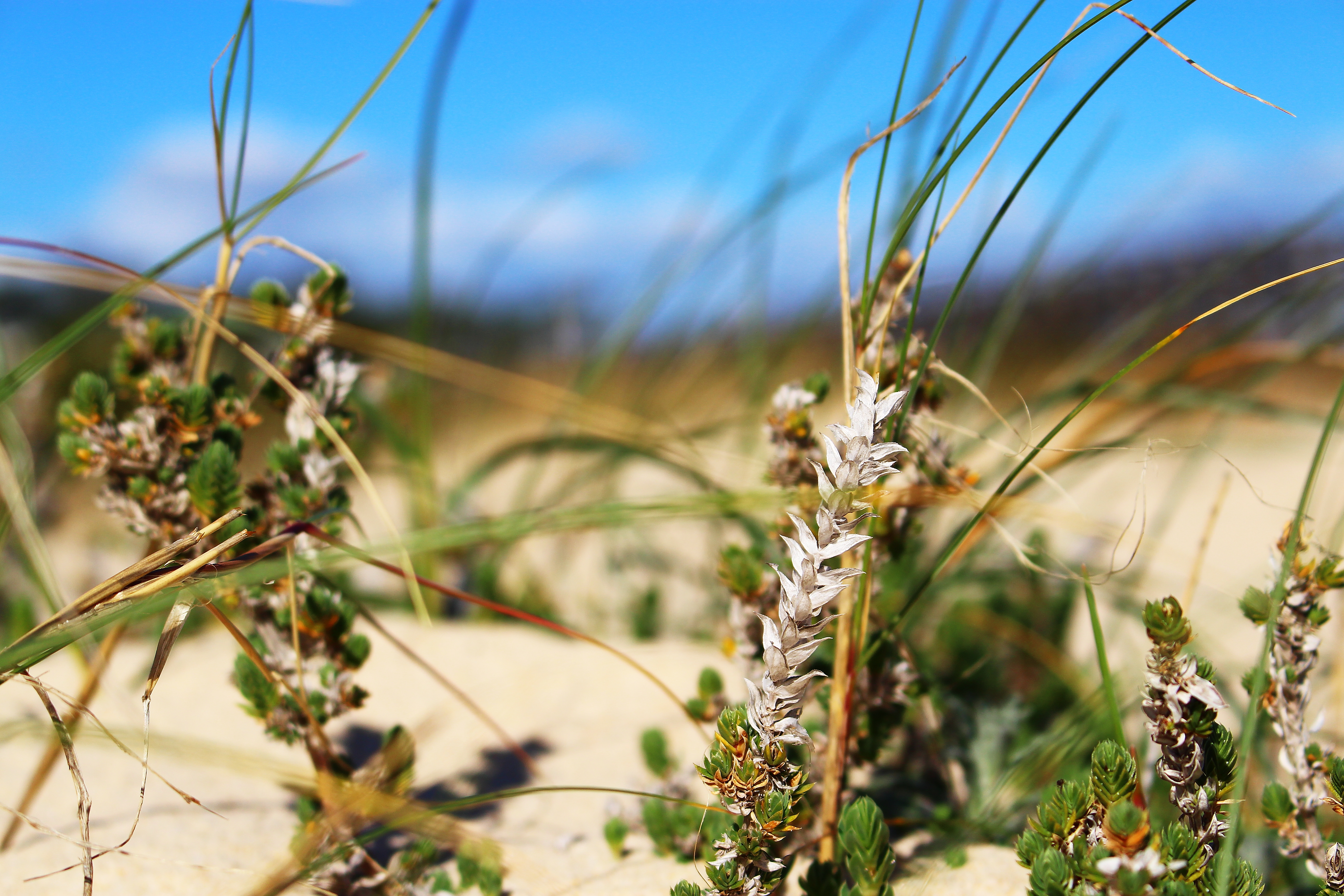 This is a perspective over the flora at Manta Rota Beach on Ria Formosa Natural Park in Algarve